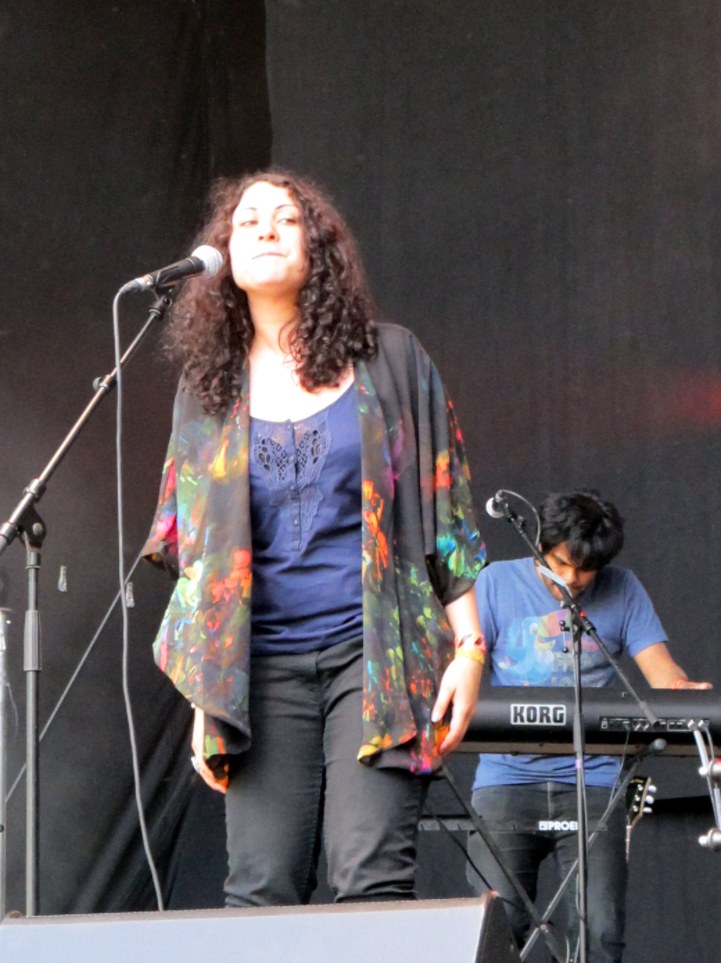 Singer Deborah Lehnen of the Birdbones at the Fête de la Musique in Dudelange 2011